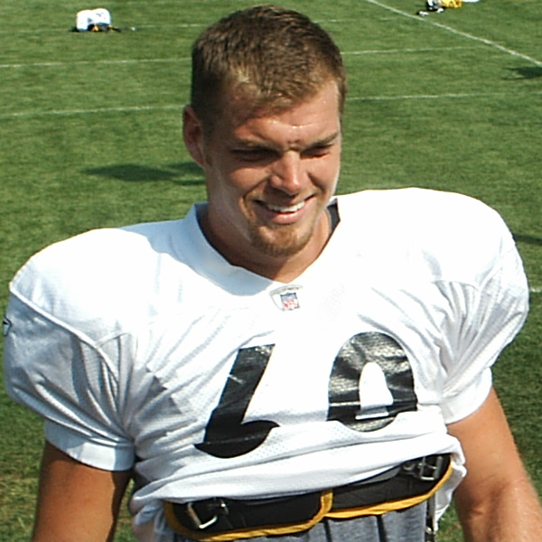 photo of Steelers player Greg Warren